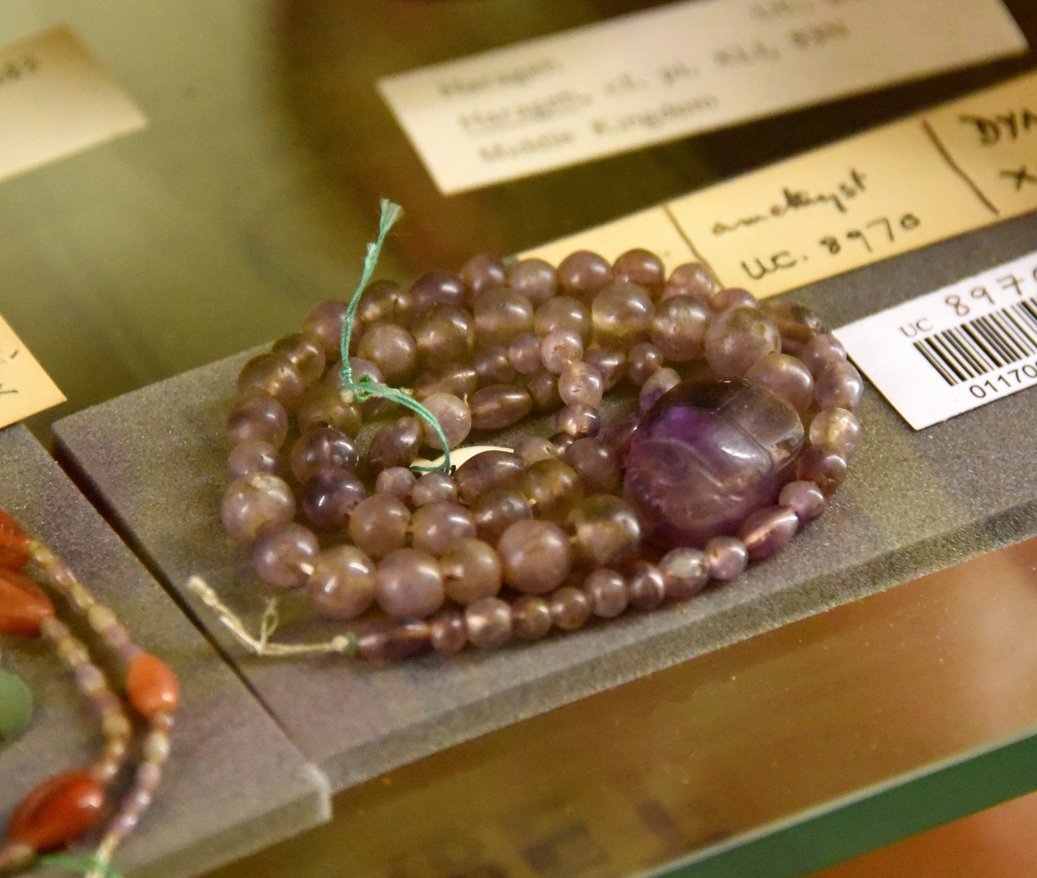 Uninscribed amethyst scarab at the center of a string of amethyst ball beads. Middle Kingdom. From Egypt. The Petrie Museum of Egyptian Archaeology, London. With thanks to the Petrie Museum of Egyptian Archaeology, UCL.